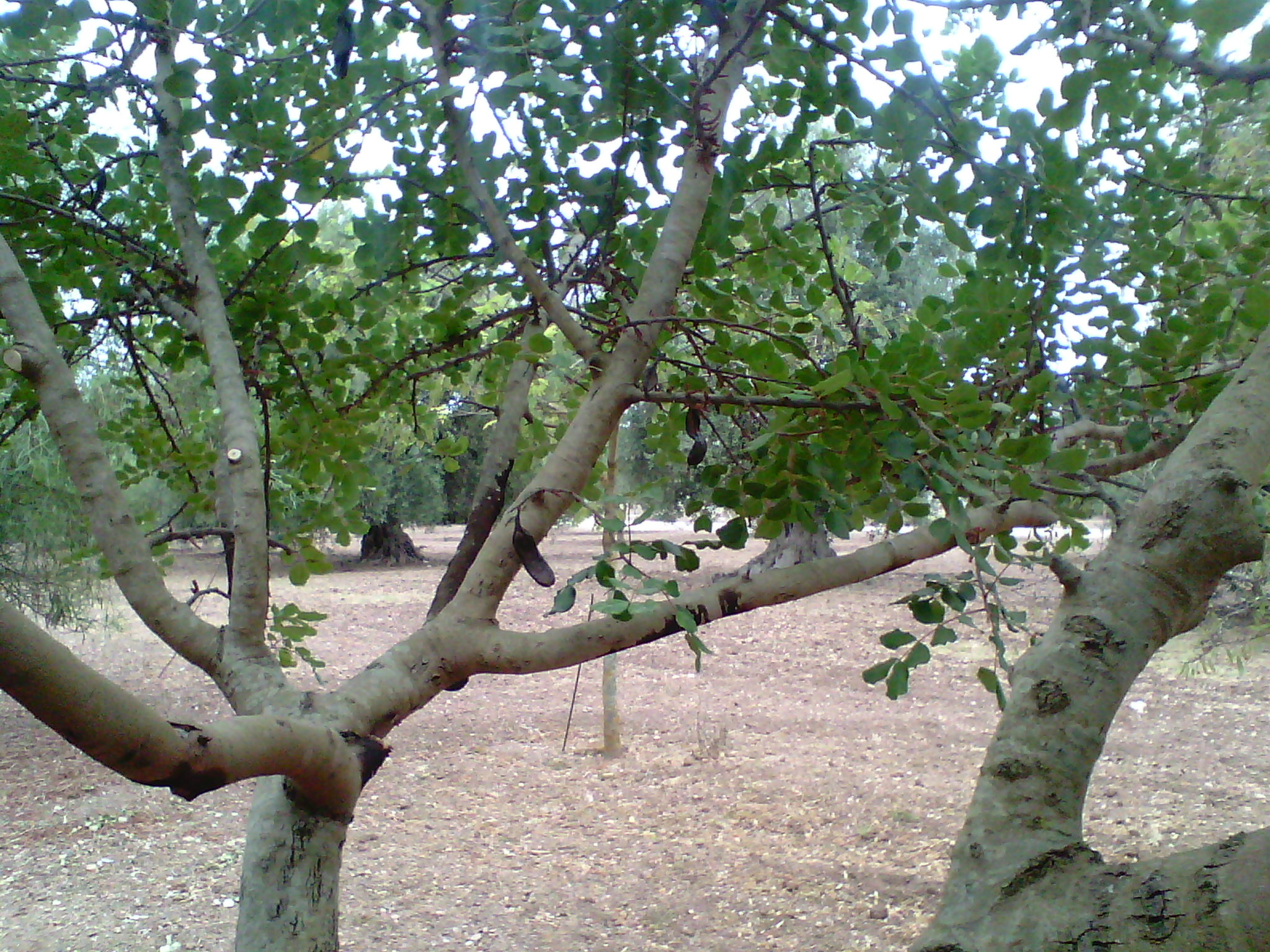 A 30-year tree of ceratonia siliqua cultivated in Comiso (Sicily)